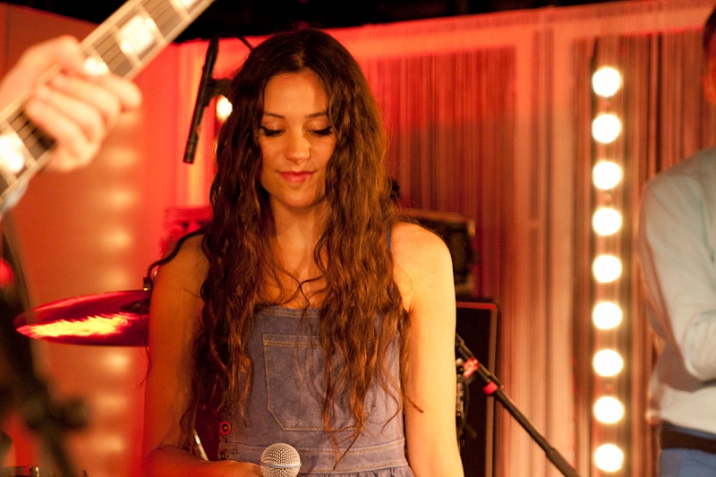 Eliza Doolittle performing at the Q-Music studios